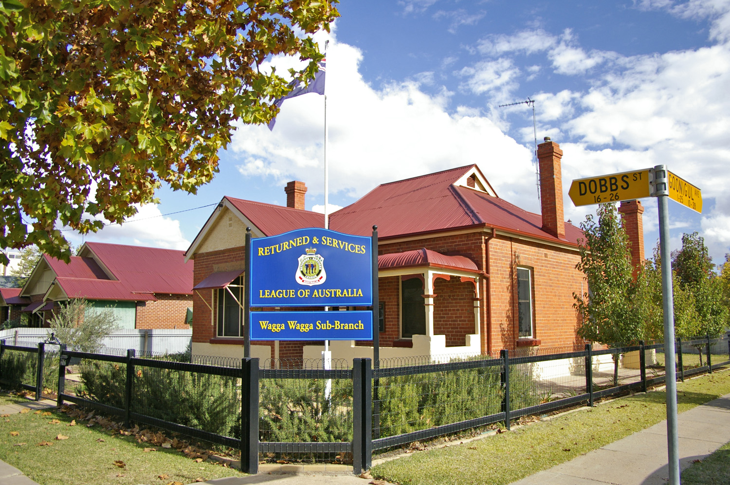 Returned and Services League of Australia. Wagga Wagga Sub-Branch